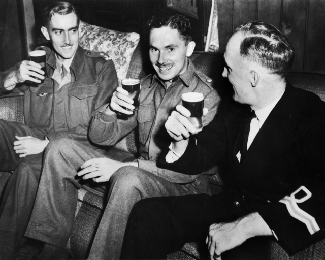 BRISBANE, QLD. 1944. AFTER THE RETURN FROM Z FORCE'S OPERATION JAYWICK, THREE OF THE SHIP'S COMPANY OF THE KRAIT ENJOY A BEER. LEFT TO RIGHT: LIEUTENANT R. C. PAGE, AIF, MEDICAL OFFICER AND OPERATIVE; MAJOR IVAN LYON MBE, THE GORDON HIGHLANDERS, OFFICER COMMANDING AND OPERATIVE; LIEUTENANT D. M. N. DAVIDSON, ROYAL NAVY VOLUNTEER RESERVE, 2ND IN CHARGE AND OPERATIVE. ALL MEMBERS OF THE OPERATION WERE DECORATED, PAGE, LYON AND DAVIDSON EACH RECEIVING THE DSO. (DONOR: R. P. GREENISH)